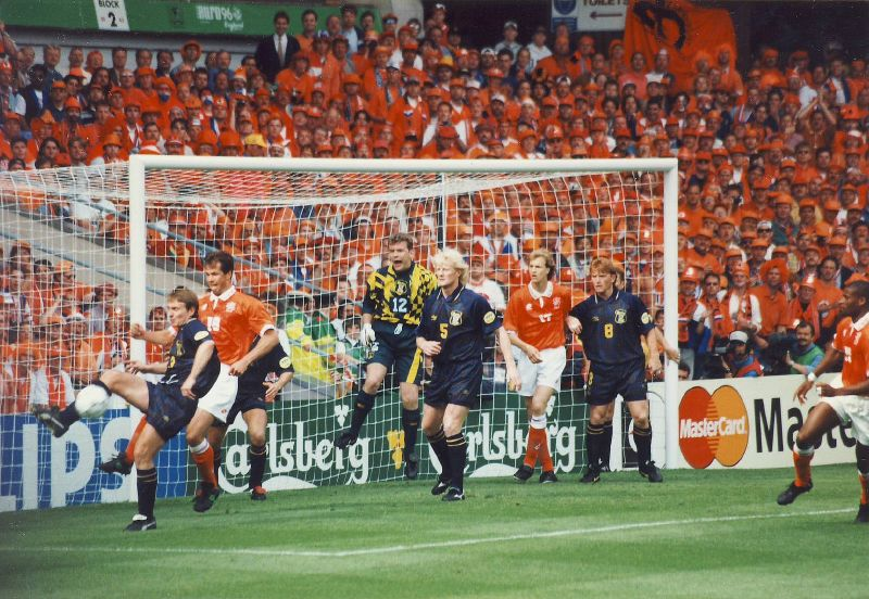 Scotland versus Holland match at the 1996 European Championships, played at Villa Park